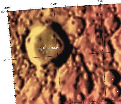 Belopolskiy crater on the Color-coded LAC 107 from USGS Digital Atlas